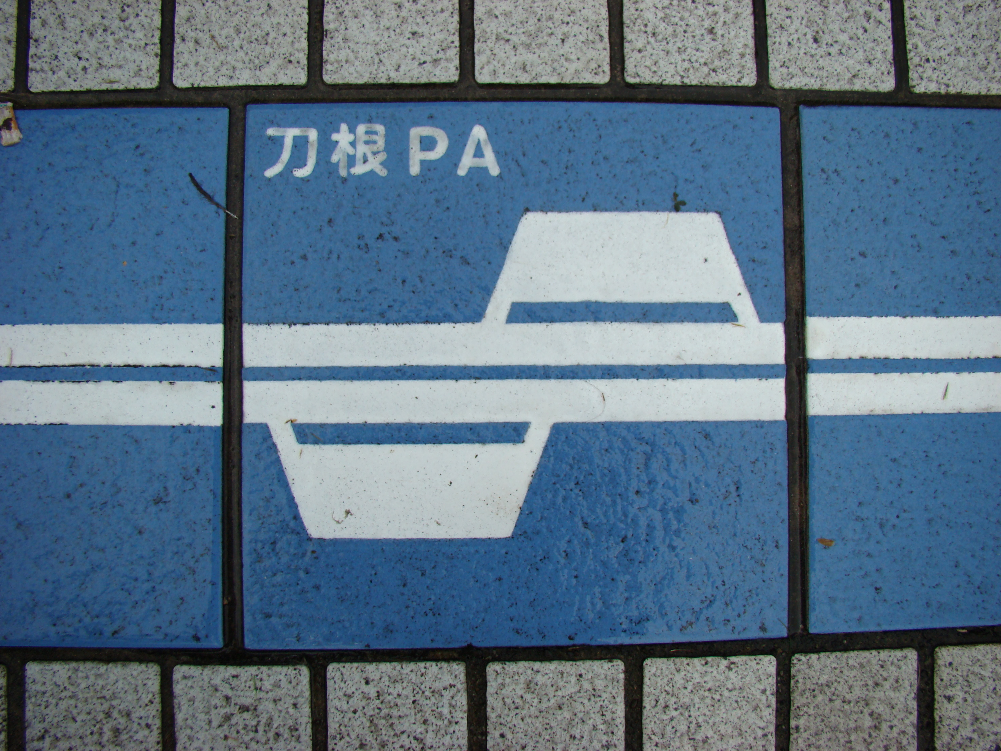 The tile which designed a shape of the Tone Parking Area（Hokuriku Expressway）（There is this tile in Hokuriku Expressway Nadachi-Tanihama Service Area.）. Place - Chayagahara,Joetsu City,Niigata Prefecture,Japan Date - August 9, 2009 Format - JPEG, 3264x2448pixel, 24bit colors. Photographer - NALA Wiki (talk)